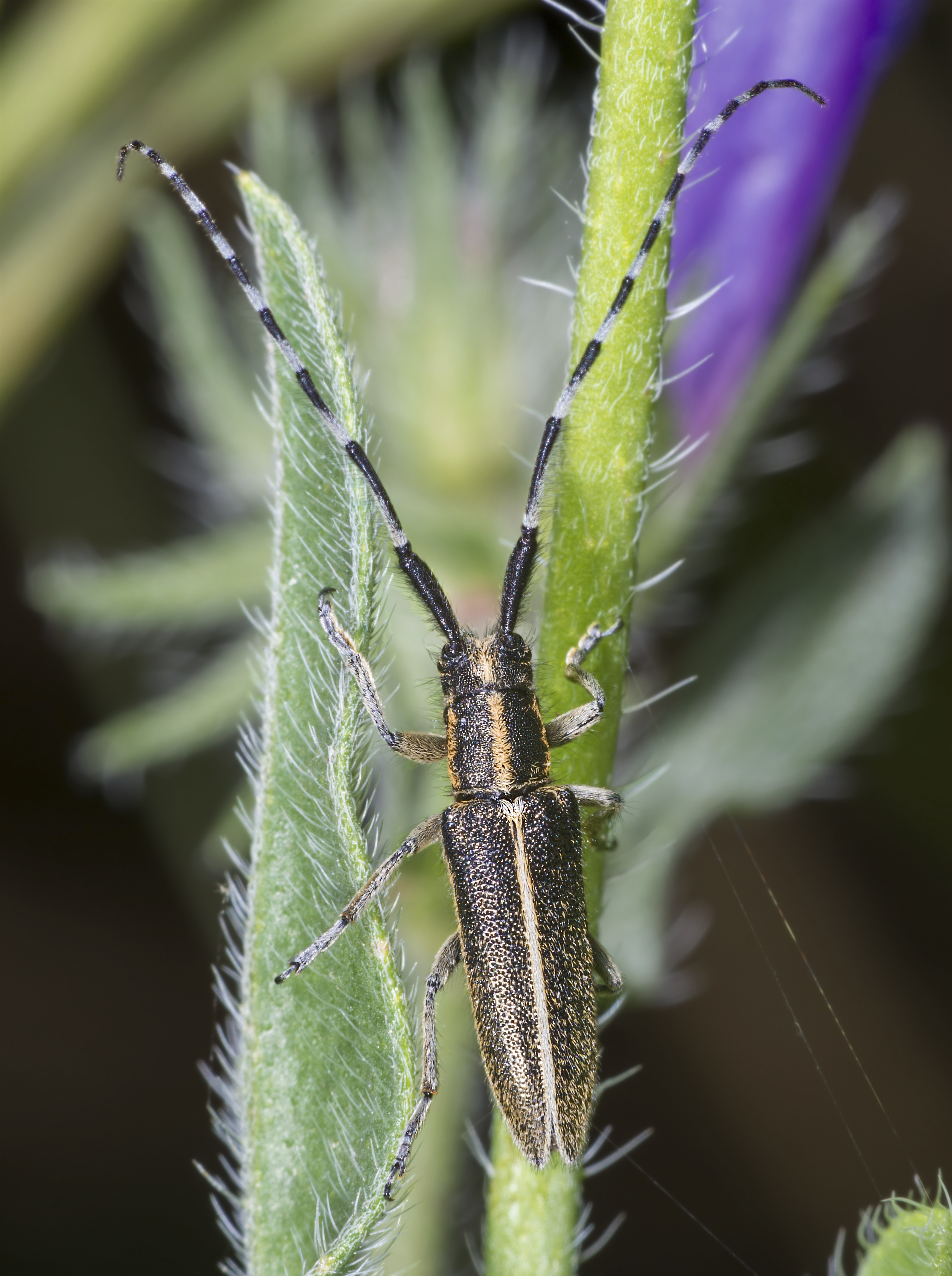 Agapanthia cardui Dorsal side